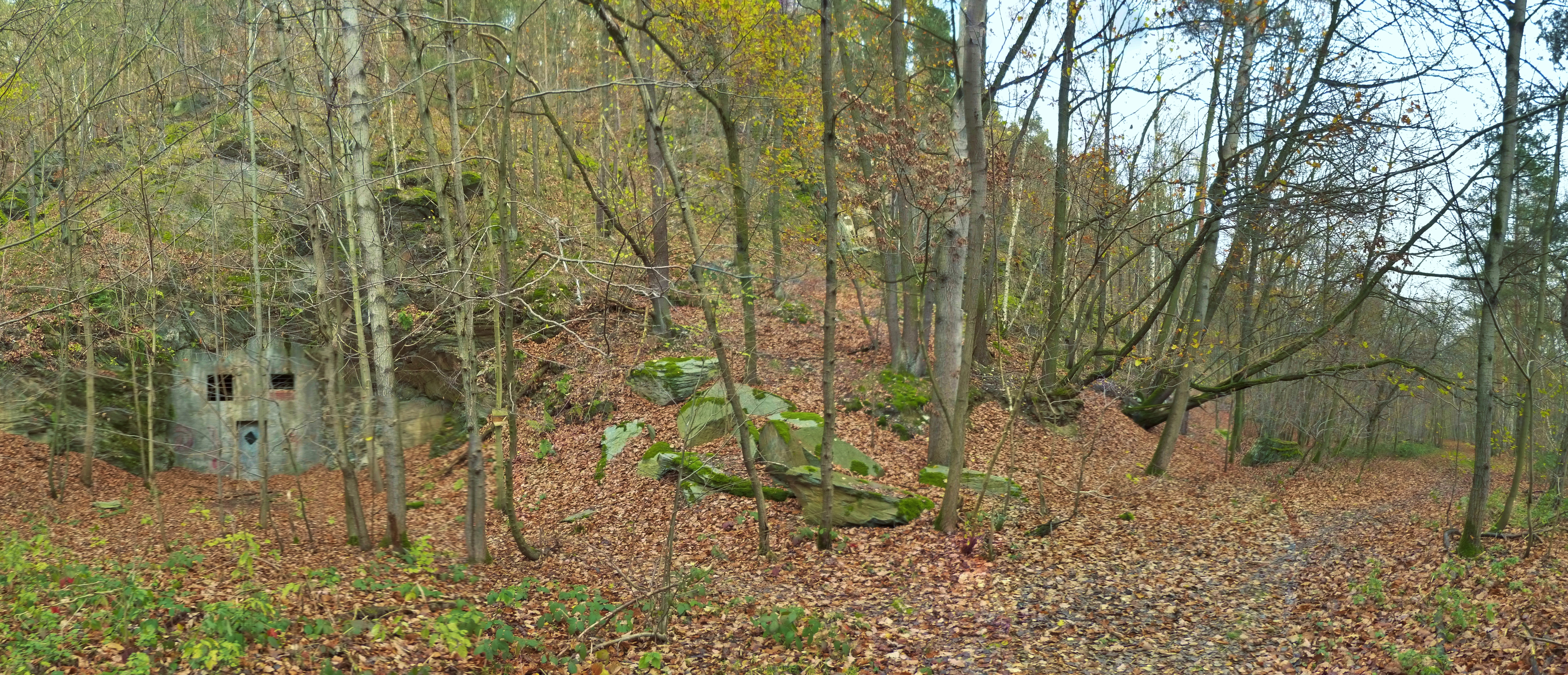 In 1993 secured tunnel mouth hole with bat hole.